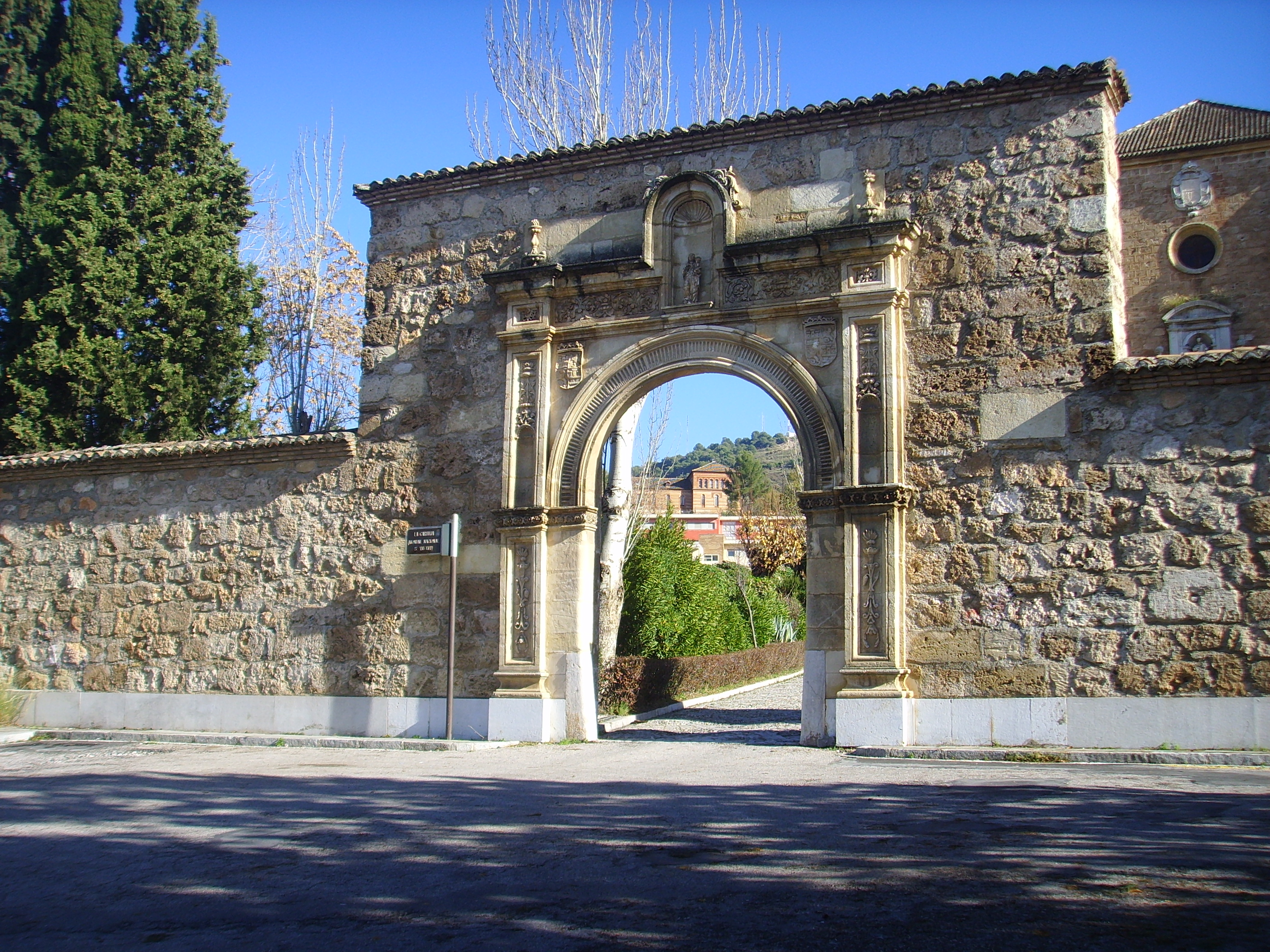 Entrance of La Cartuja.